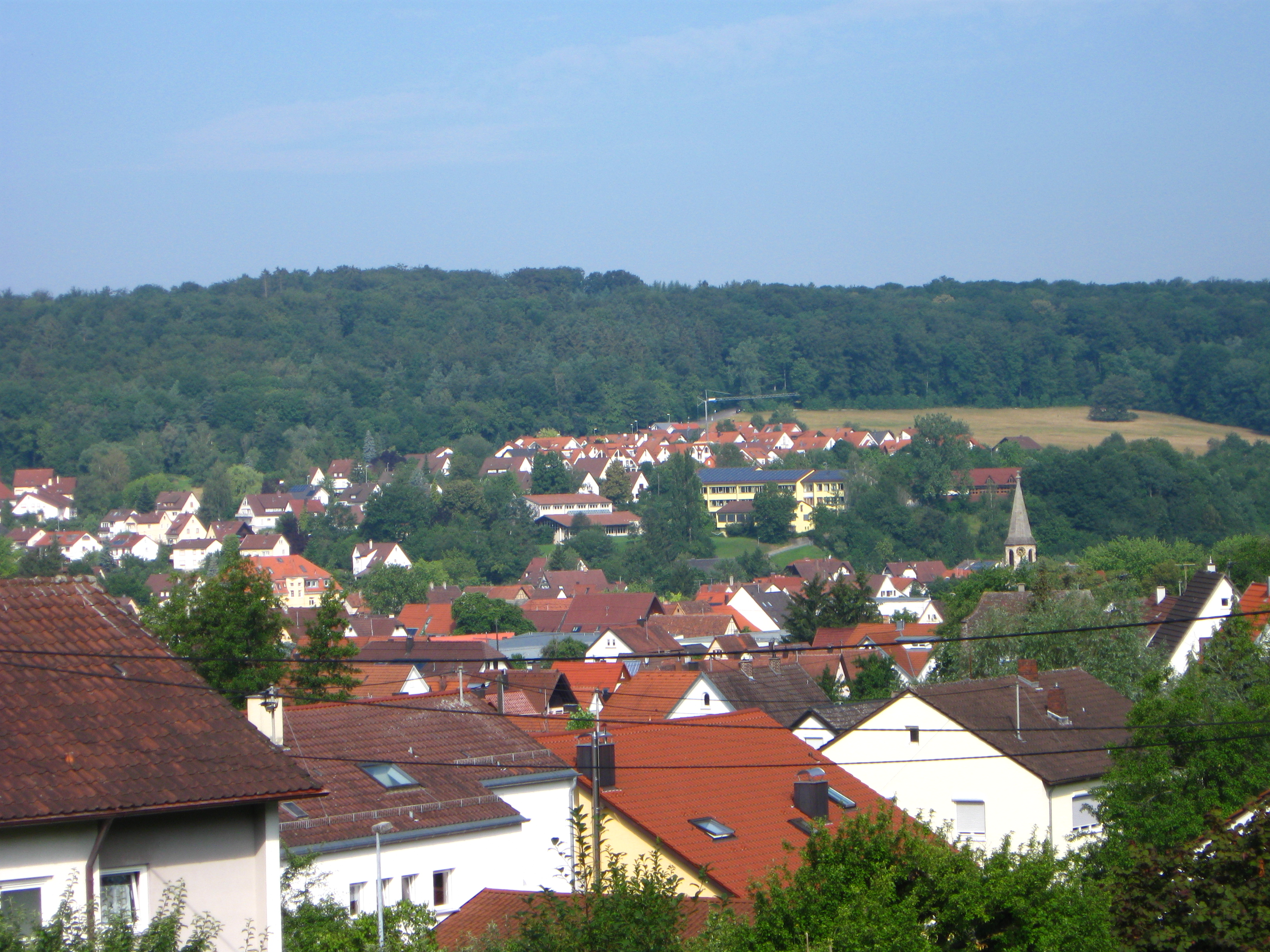 Wannweil, Baden-Württemberg, Germany.